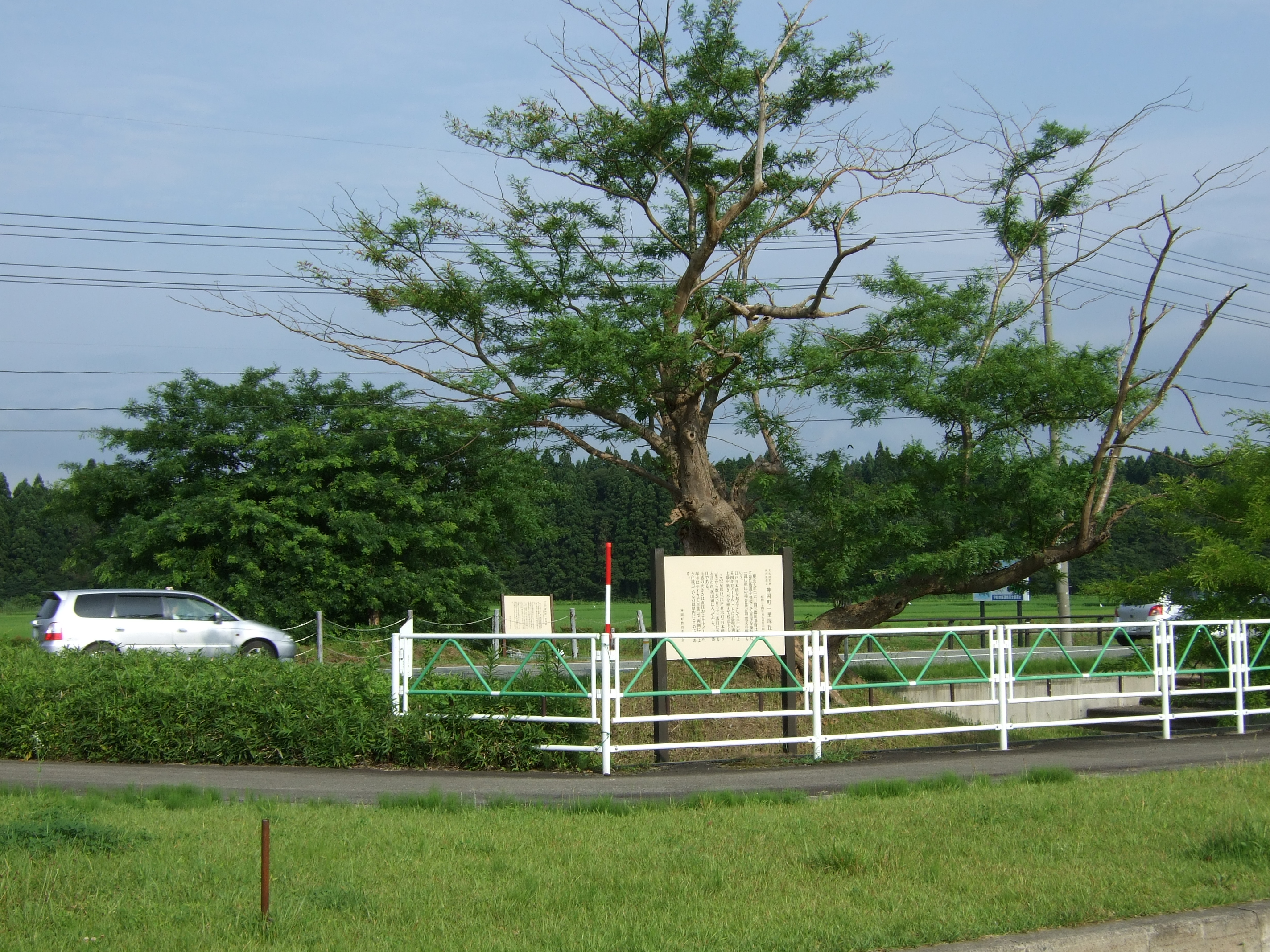 Sanbonsugi Ichirizuka (Li (length) milestone) via Usyuu-kaidou (route 13), in Daisen, Akita, Japan.